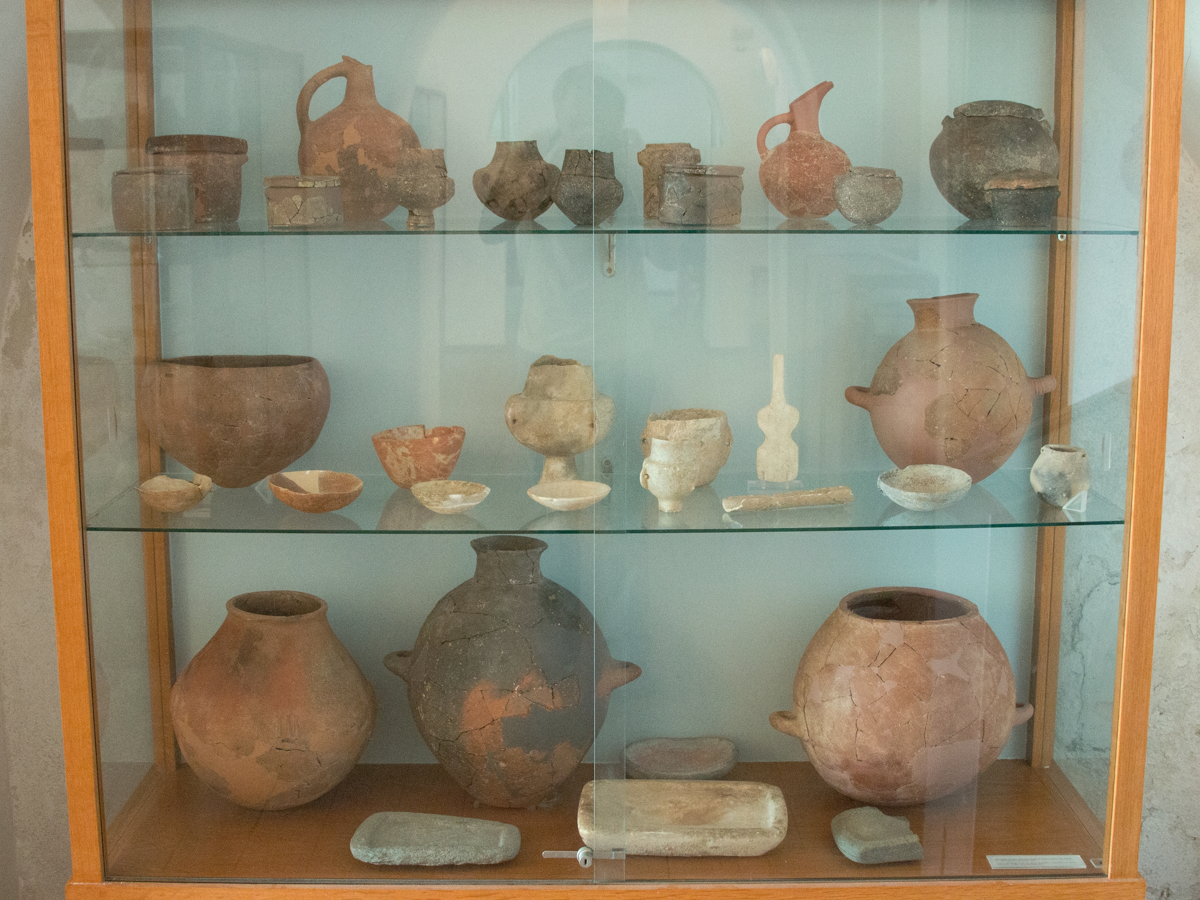 Grave offerings from the Early Cycladic cemeteries of Naxos, 3000-2500 BC. Pottery and stone objects from the more recent excavations, cemeteries in area of Sangri (Gyroulas) and settlement at Panormos (Korfari tou Amygdalou). Case 8. Archaeological Museum of Naxos.